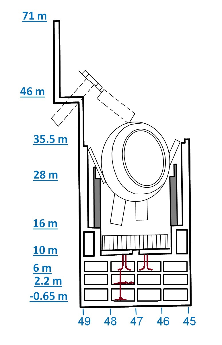 Chernobyl disaster, the stages of destruction of nuclear reactor (8).